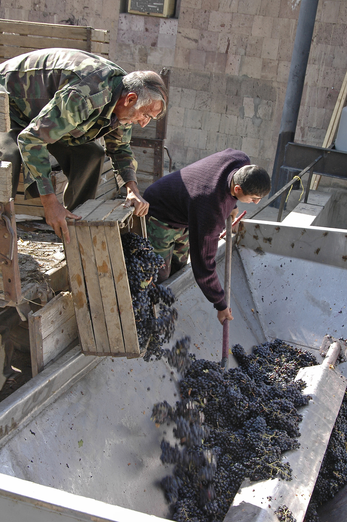 Harvesting grapes for processors.